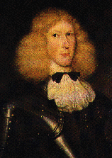 Portrait of captain Robert Campbell of Glenlyon (1630-1696)